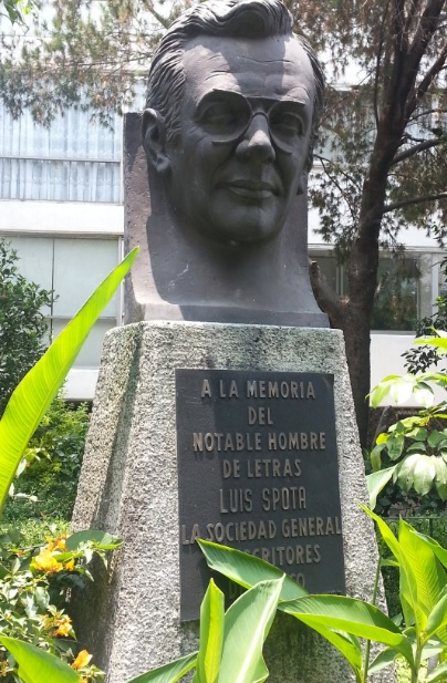 Picture of a sculpture commemorating Luis Spota. "A la memoria del notable hombre de letras." La Sociedad General de Escritores de México. (General Society of Writers from Mexico - SOGEM)